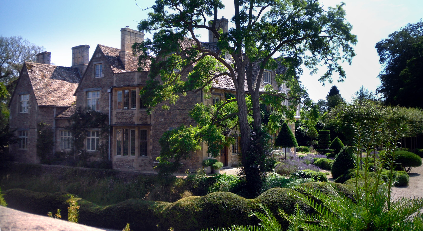 Appleton Manor, Appleton, Oxfordshire (formerly Berkshire), seen from the north